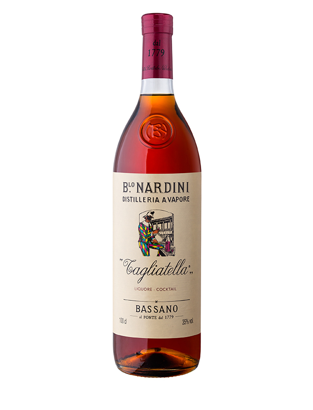 Fruity, spicy, harmonious. A unique liqueur characterized by floral fragrances and subtle hints of spices. Grappa, sour cherry, orange, and herbs are the key ingredients in this precious recipe guarded by the Nardini family. The sweet and spicy notes surprise even the most demanding palates, right from the first sip.